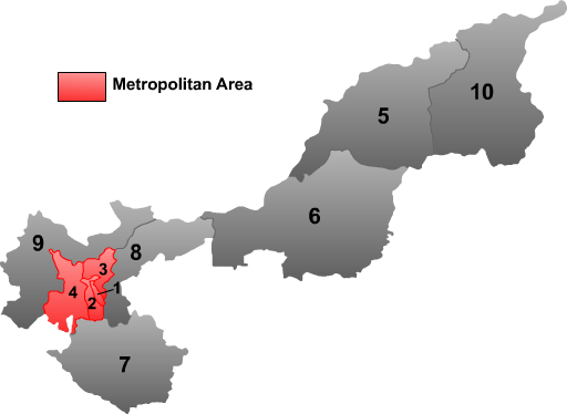 Map of Jiamusi Prefecture in Heilongjiang Province - northeast China.